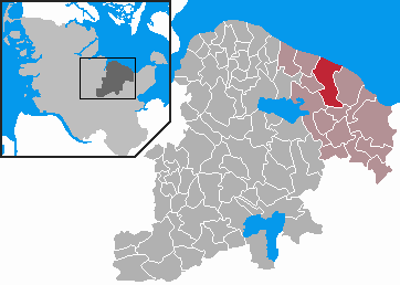 This map shows the area of the Gemeinde (municipality) Panker in the Kreis (district) Plön, Schleswig-Holstein, Germany.